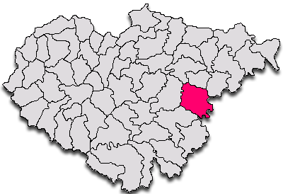 Map Salaj County Romania